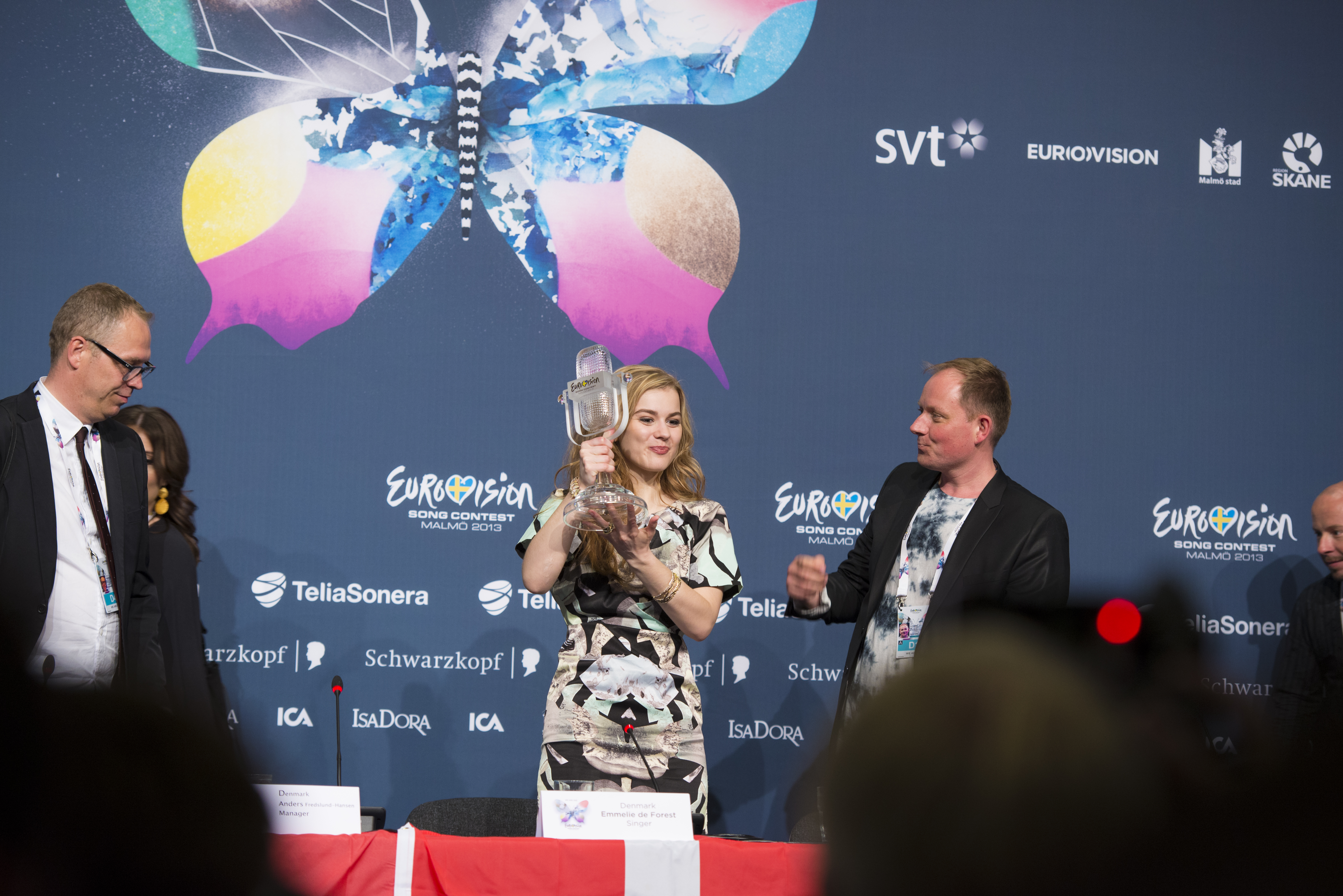 Emmelie de Forest at the winners press conference, right after winning the Eurovision Song Contest 2013 in Malmö. (Help translate this text)